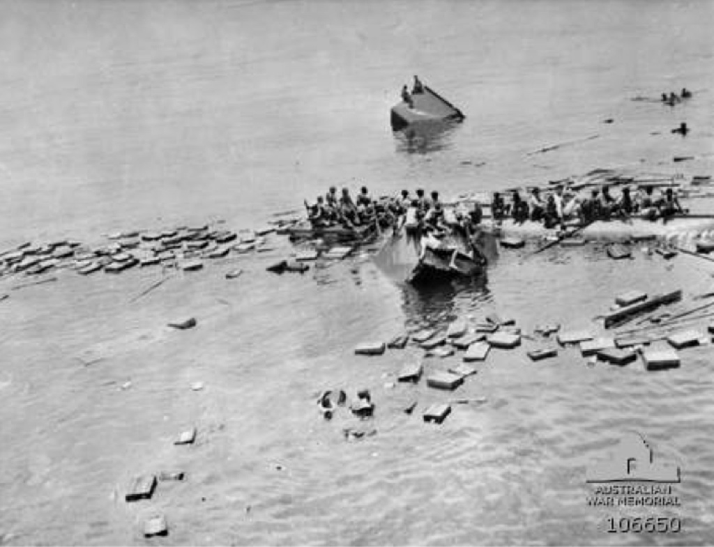 Survivors from the Netherlands merchant ship 'sJacob about to be rescued by HMAS Bendigo (out of picture). The ship had been sunk by Japanese aircraft on their way to attack Oro Bay, New Guinea.